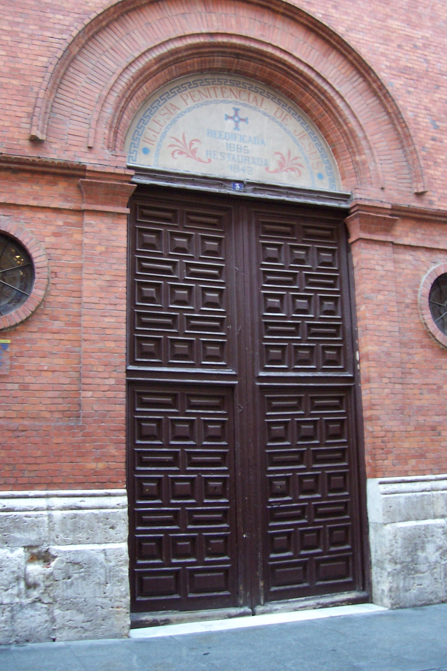 Penitential church of Jesus of Nazareth in Valladolid, Spain. Its building started in 1665 and finished in 1676.